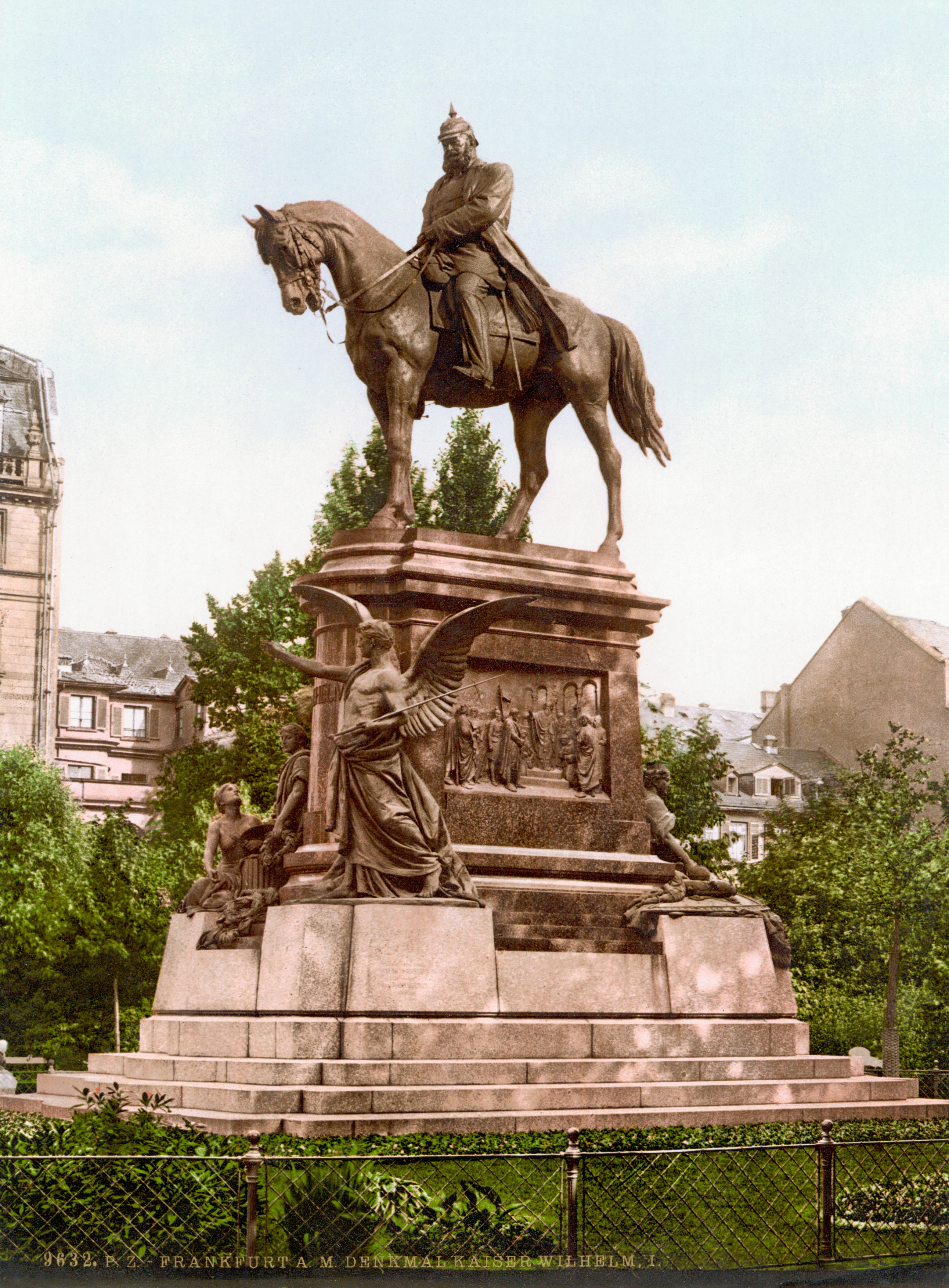 Equestrian statue of Wilhelm I of Germany in Frankfurt am Main, 1896 by sculptor Clemens Buscher, 1941 confiscated for war purposes